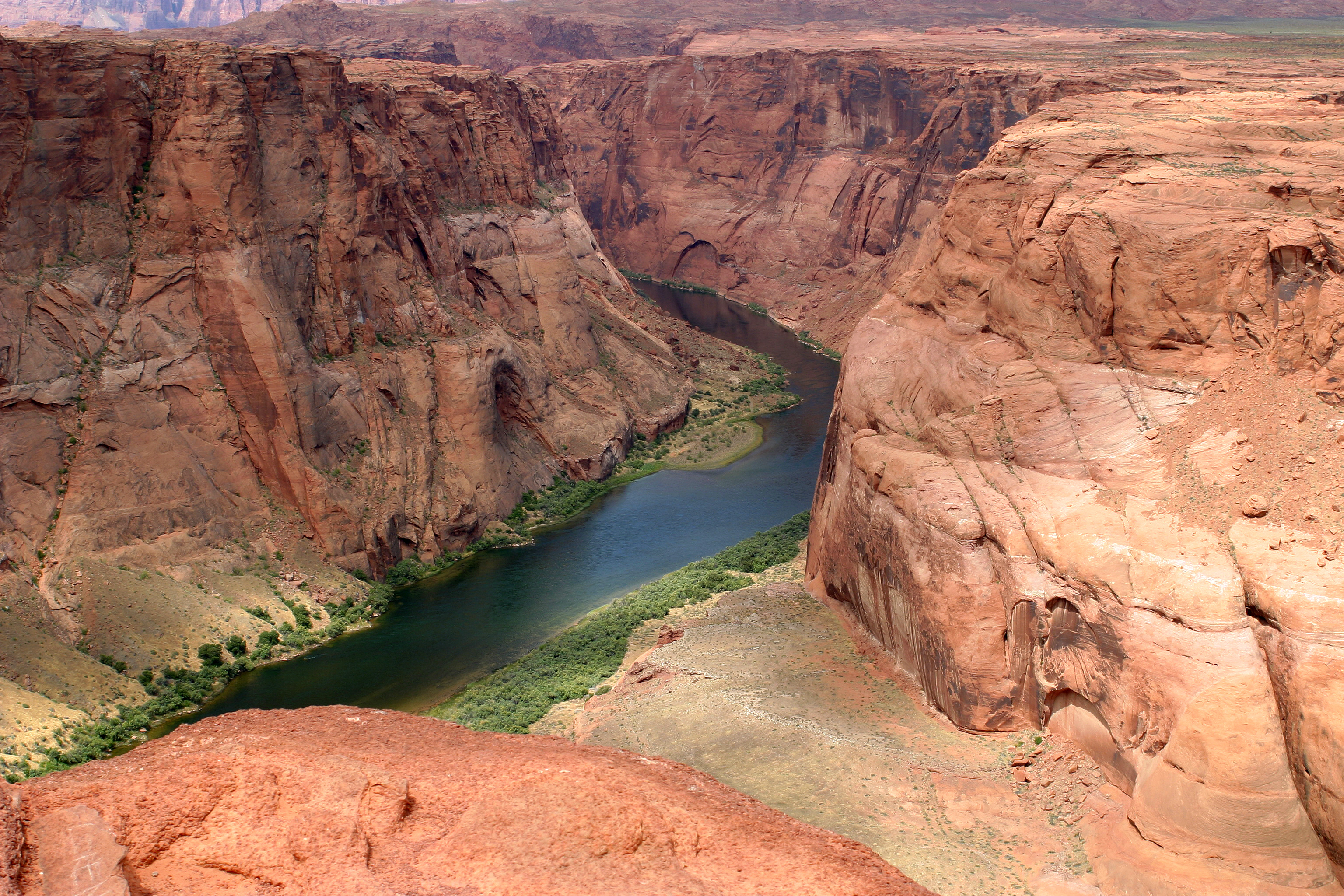 The Colorado River near Page, in Arizona, USA.